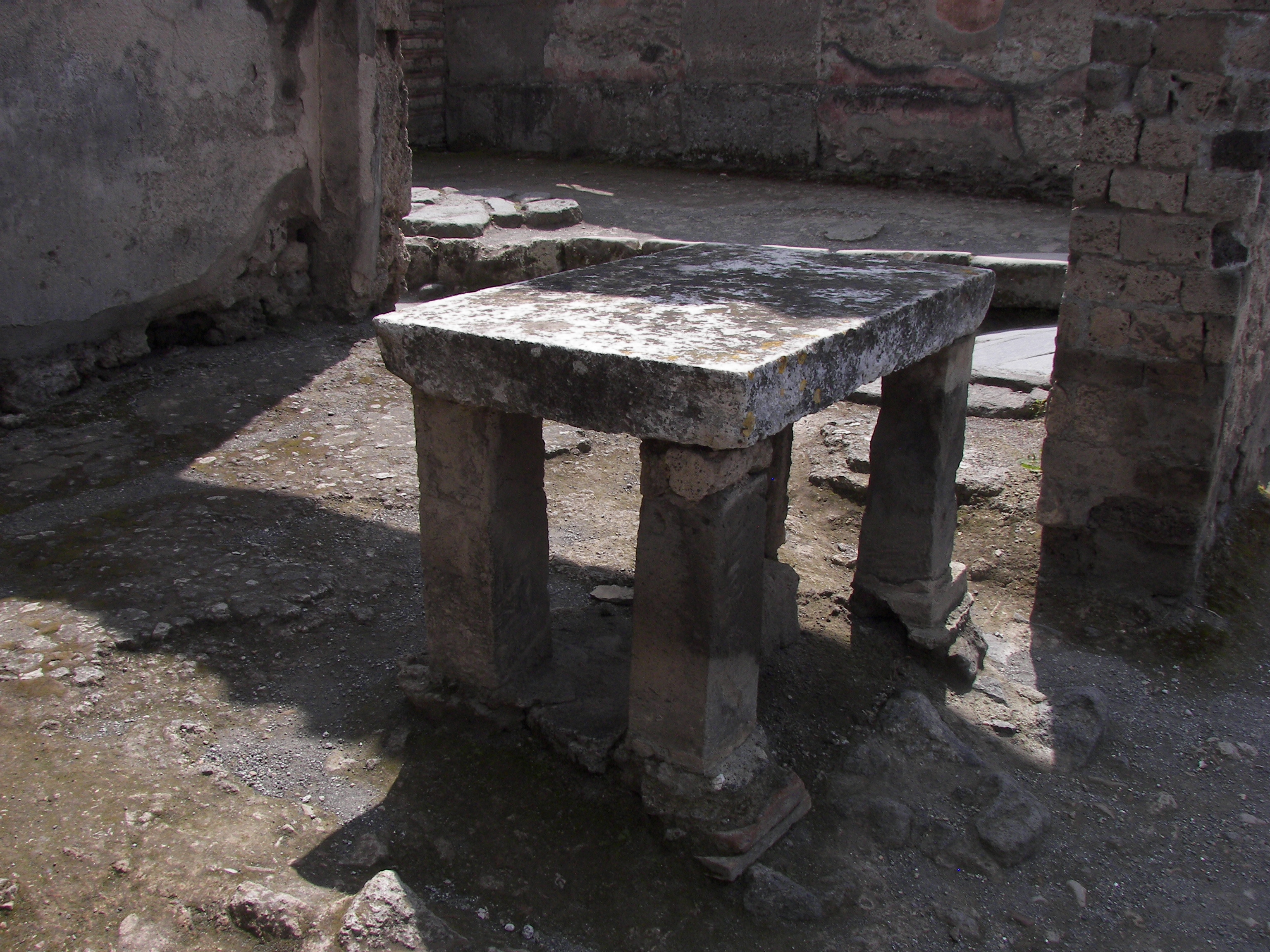 Table in a building at VII.1.41 in Pompeii.